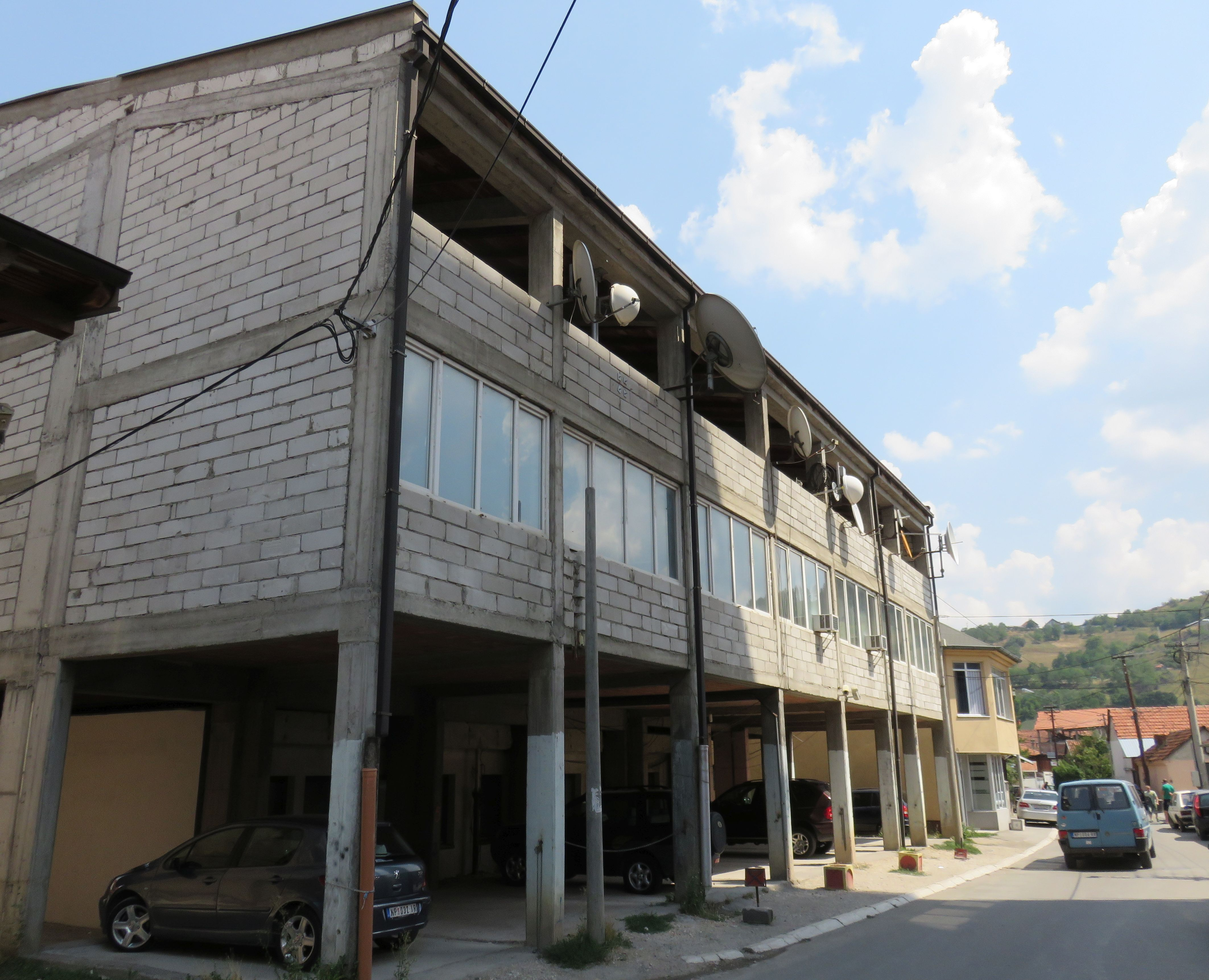 Regionalna televizija Novi Pazar's Headquarter